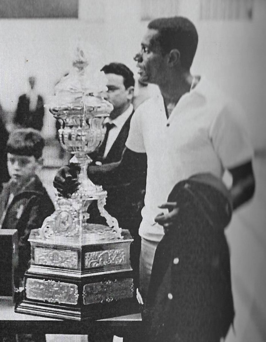 Flamengo Champions Trophy Mohamed V 1968.